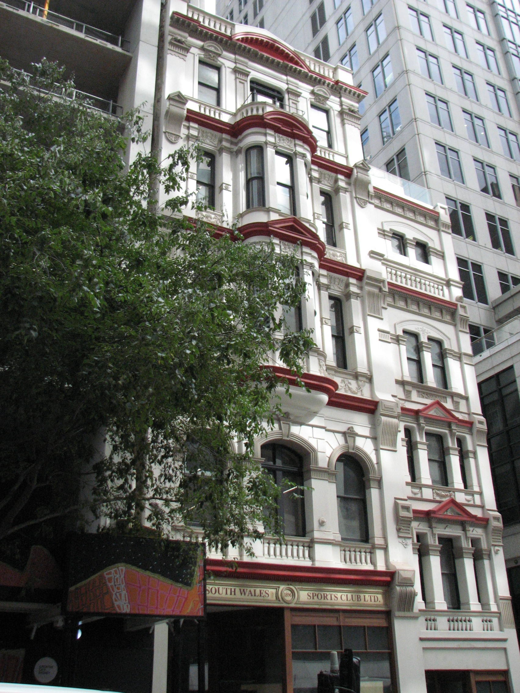 The New South Wales Sports Club (former) is part of the Little Hunter and Hamilton Street Precinct, which includes properties facing Hunter Street, Sydney. It is listed on the New South Wales State Heritage Register.